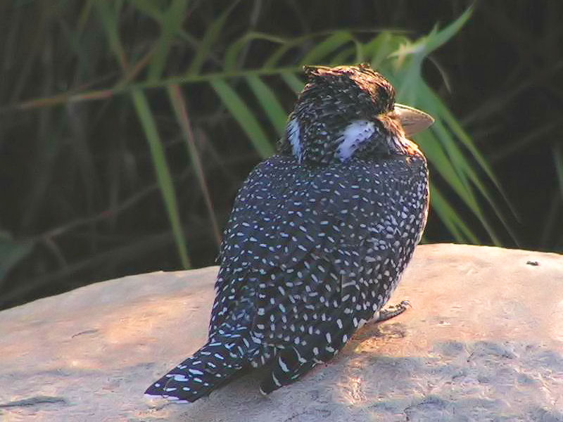 Giant Kingfisher (Megaceryle maxima) taken in Kruger Park, South Africa